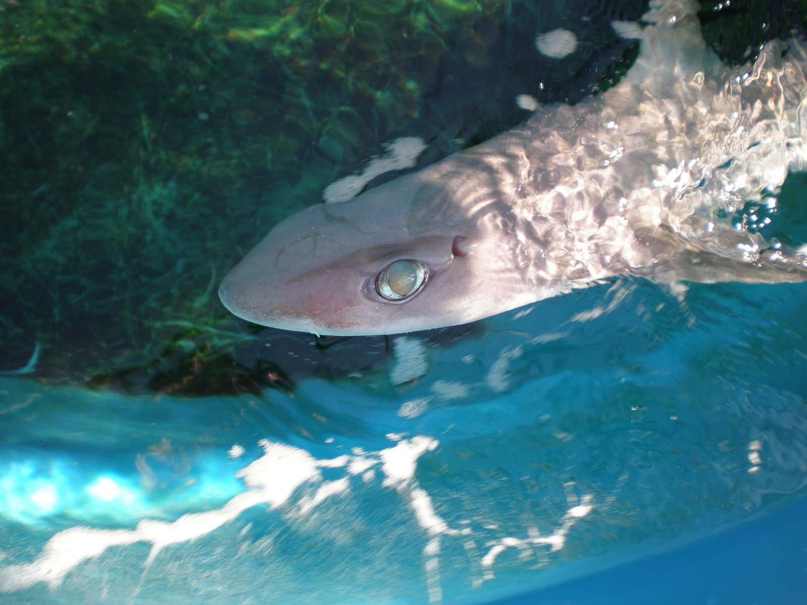 Squalus bucephalus. Alive in aquarium after being caught. Locality: Off Récif Toombo, off Nouméa, New Caledonia. Date 2008-07-23. Specimen identified by Bernard Séret (IRD-MNHN).